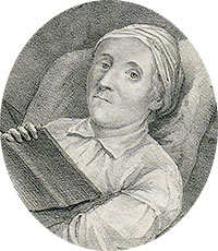 Johan Hinric Lidén (1741-1793)